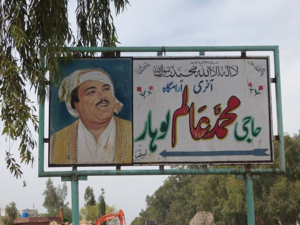 this is a photo that i have taken when visited Pakistan at the town of Lala Musa where Alm Lohar was born (person in the sign)